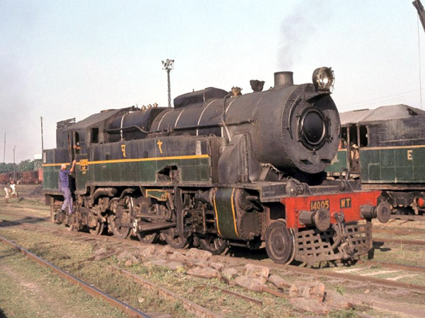 This class was used to run local trains in the HWH-BWN route. This image dates back to 1970s